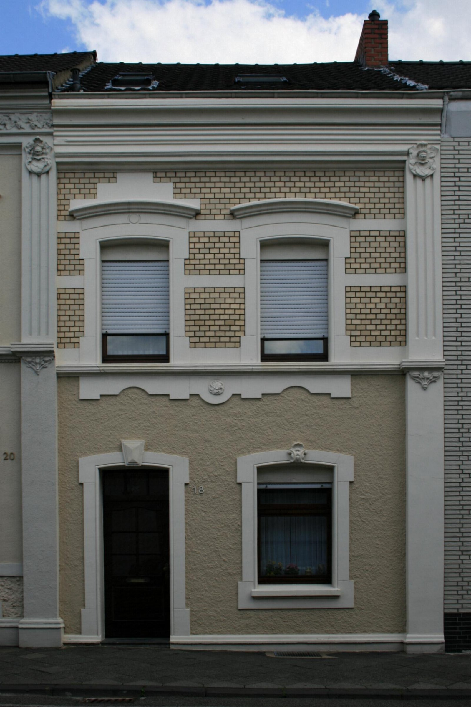 Cultural heritage monument No. E 005 in Mönchengladbach